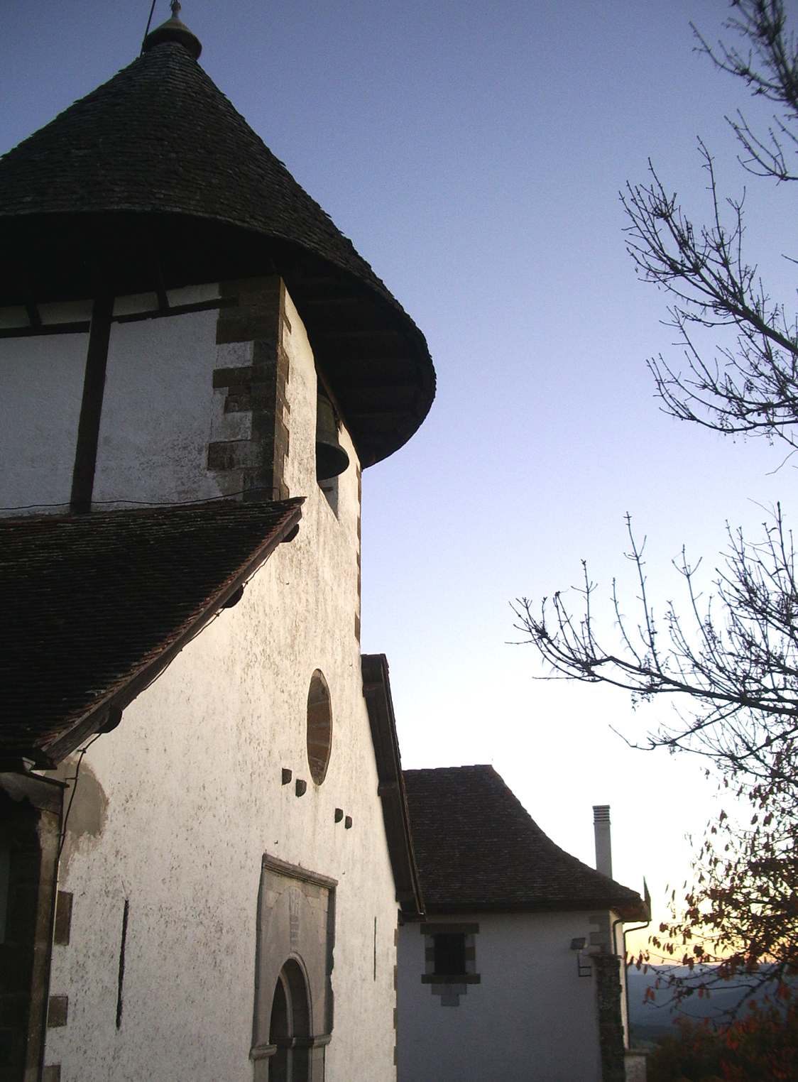 Muskilda church (Otsagabia, Navarre)